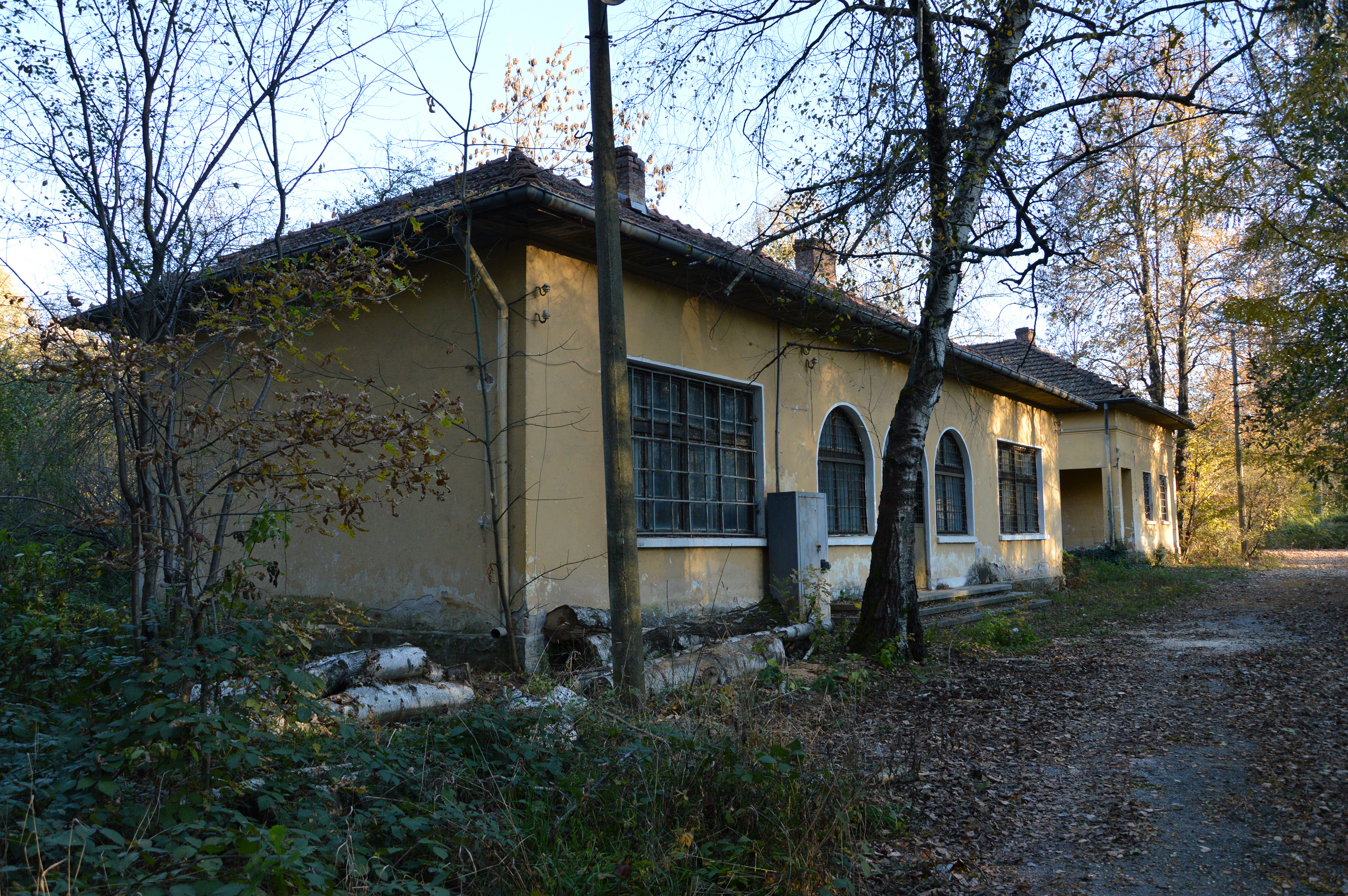 A building in the park of College of Energetics and Electronics in Botevgrad, Bulgaria.